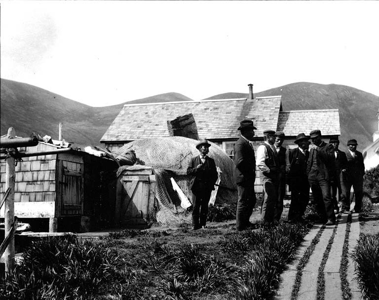 From John Cobb field notebook: Karluk Village, Alaska, June 1906 . Shows barabara, or sod hut, in the background. Subjects (LCTGM): Dwellings--Alaska--Karluk; Karluk (Alaska); Eskimos--Structures; Houses--Alaska--Karluk Subjects (LCSH): Eskimos--Alaska--Karluk; Sod houses--Alaska--Karluk